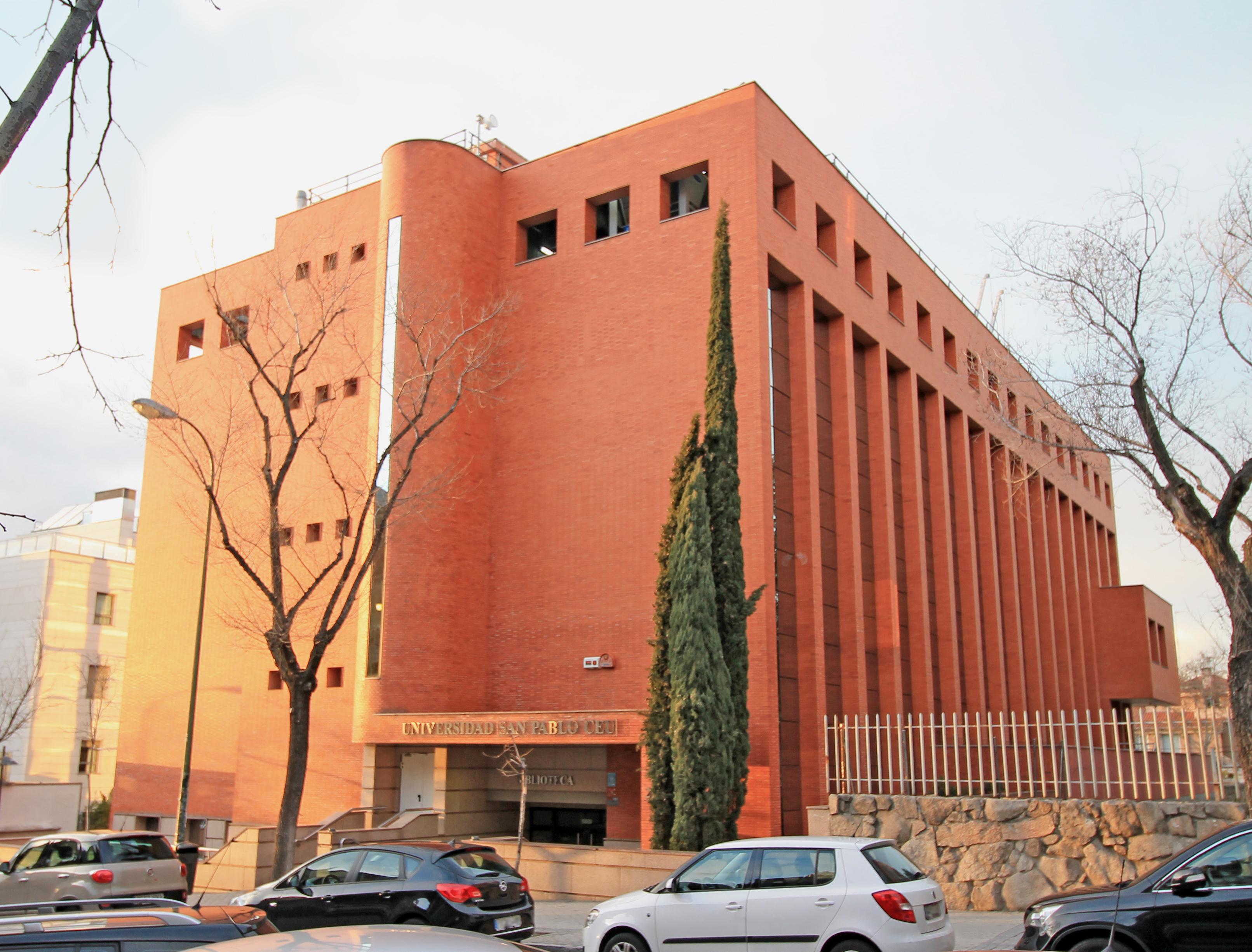 The Central Library of CEU San Pablo University in Madrid (Spain).